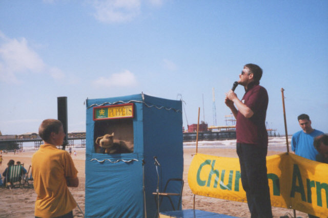 Beach mission, Blackpool. Church Army summer beach mission